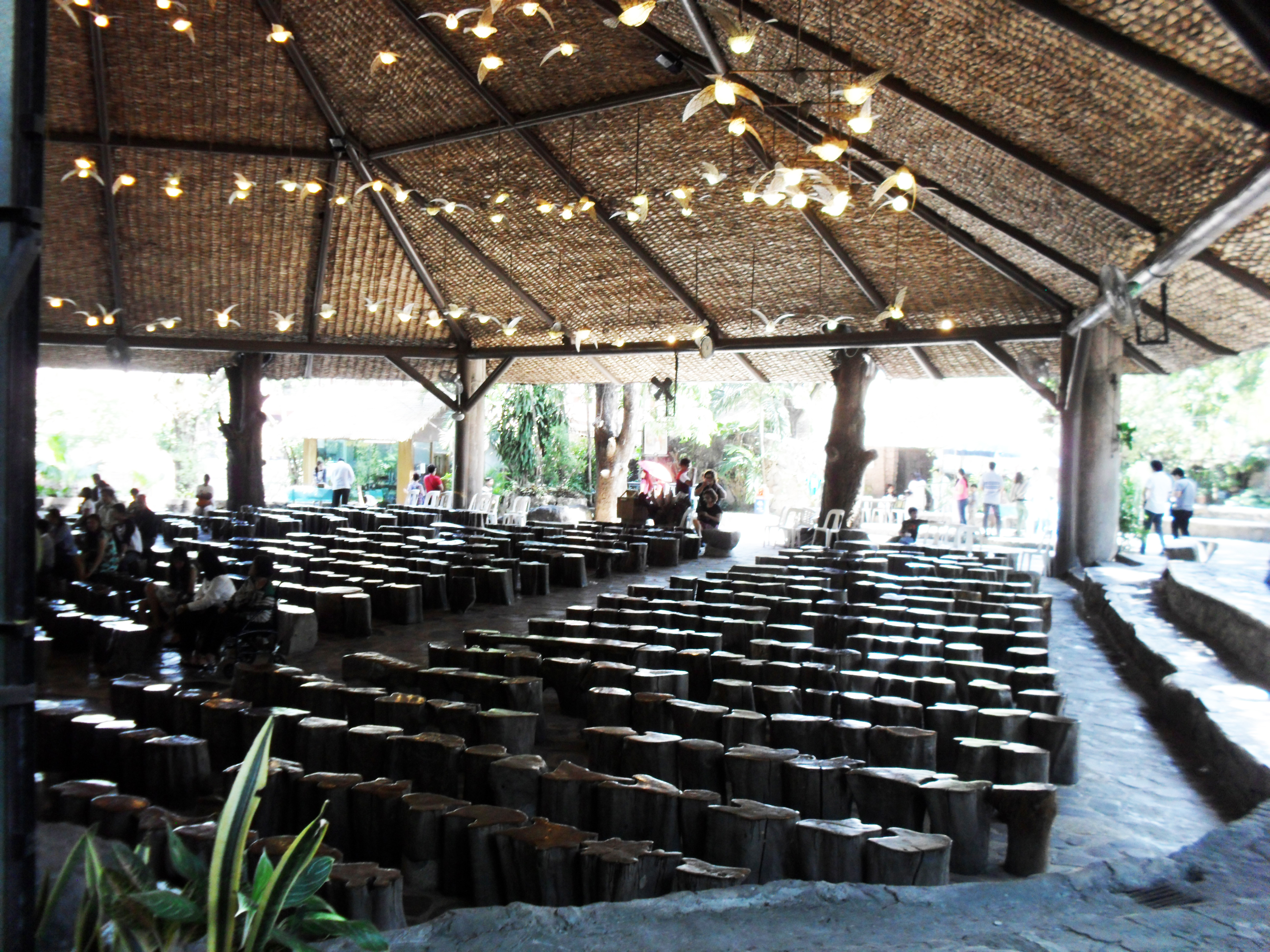 Old mango trunks utilized as benches